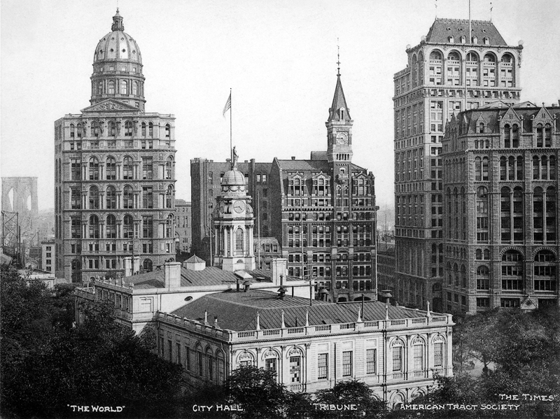 "City Hall stands in front of Newspaper Row - the former publishing headquarters of The World (left), The Tribune (center) and The Times (right) in downtown Manhattan, circa 1906. Behind the New York Times building is the American Tract Society."